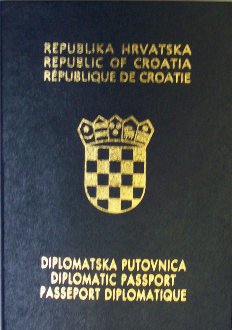 Croatian diplomatic passport